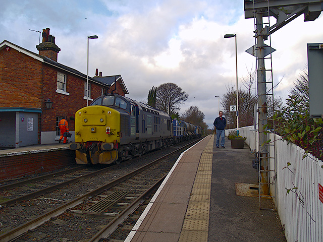 Nunthorpe railway station Original description: Nunthorpe station Station on the Middlesbrough to Whitby line. Viewed from the level crossing on Guisborough Road.